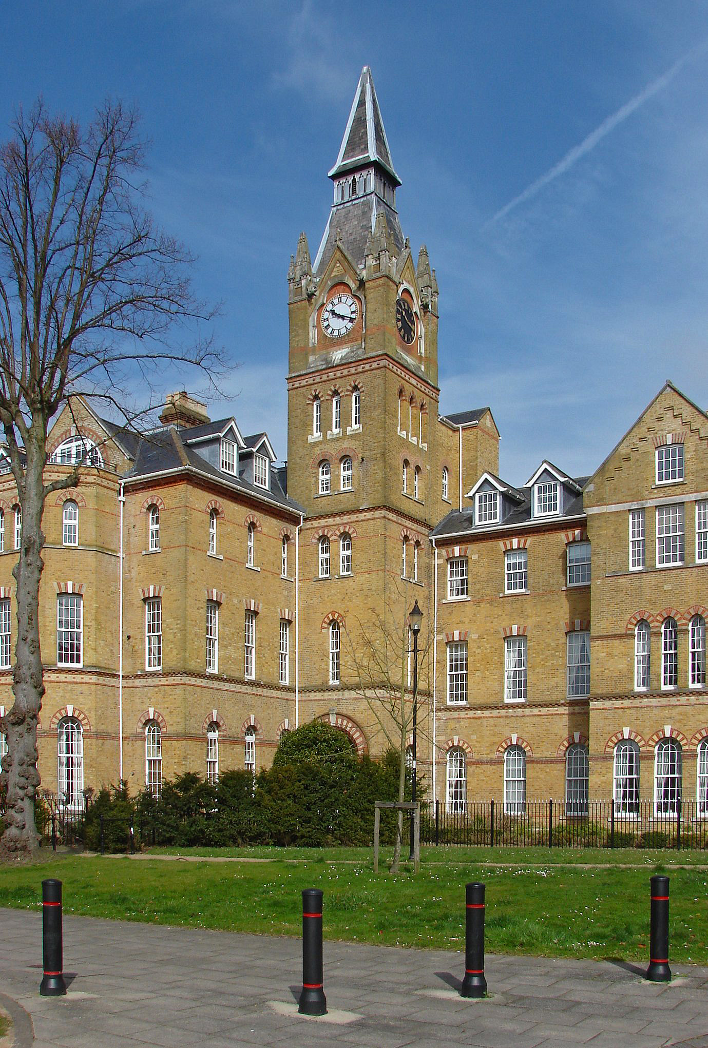 Former Brookwood Hospital